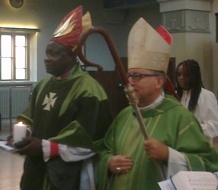 Ezekiel Kondo (left), archbishop of the internal province of Sudan, with David Hamid (right), suffragan bishop in Europe, in Mikael Agricola Church, Helsinki.